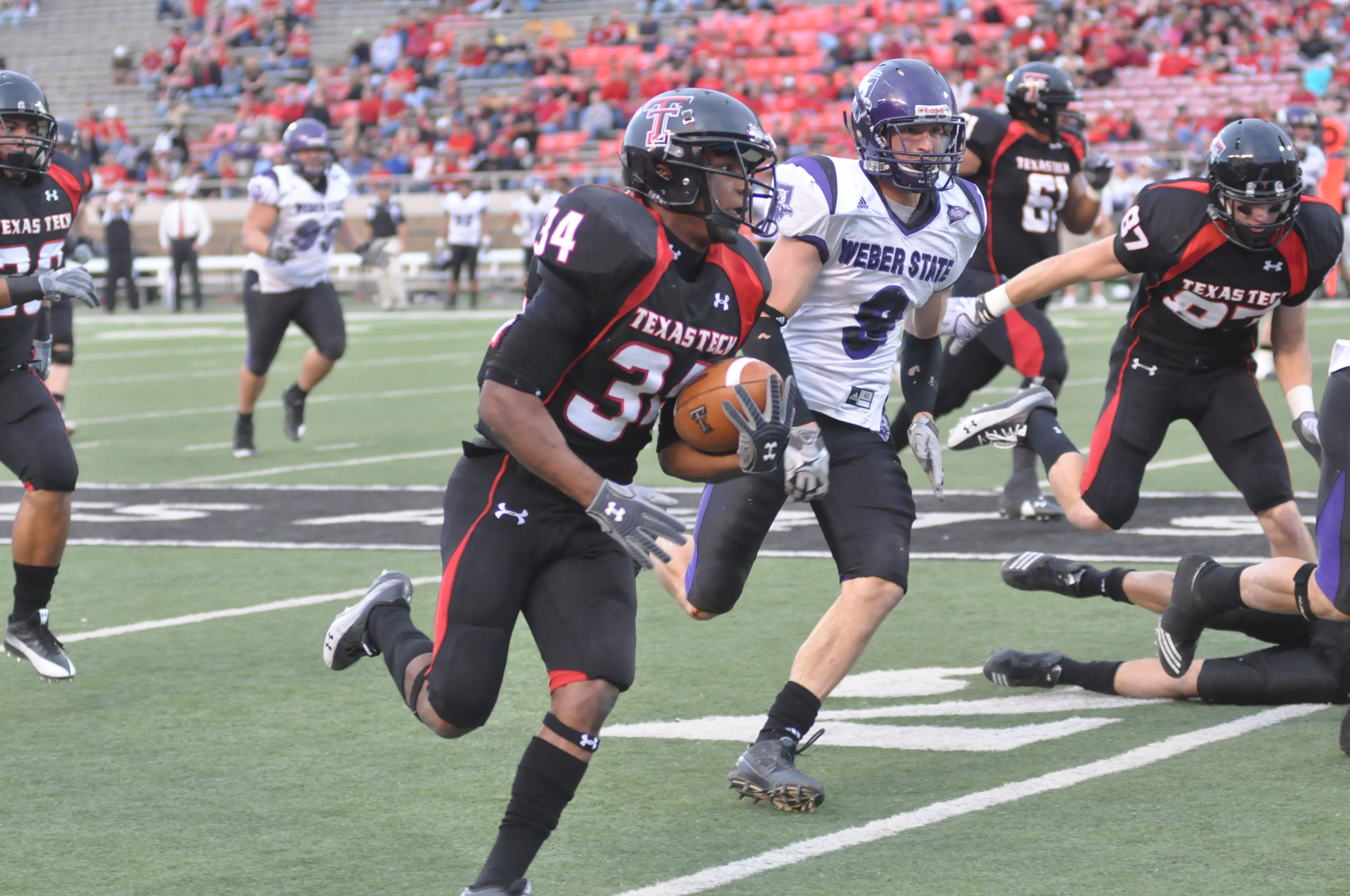 Freshman tailback Ben McRoy scores a touchdown for Texas Tech in a non-conference game against Weber State.